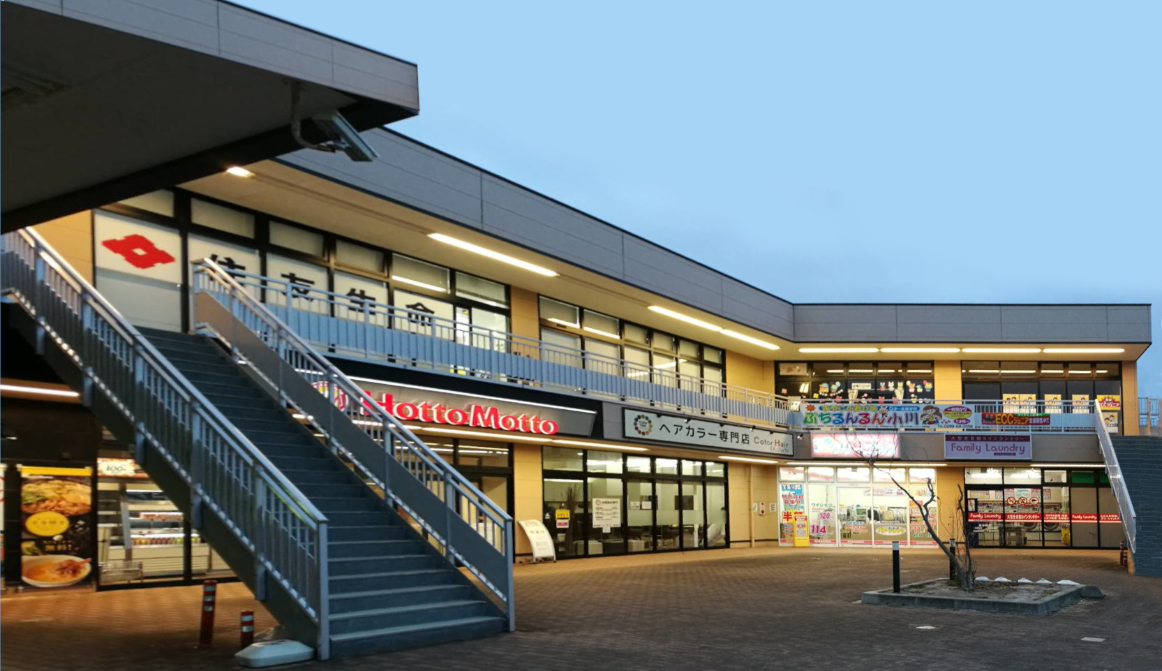 Ogawa shopping plaza